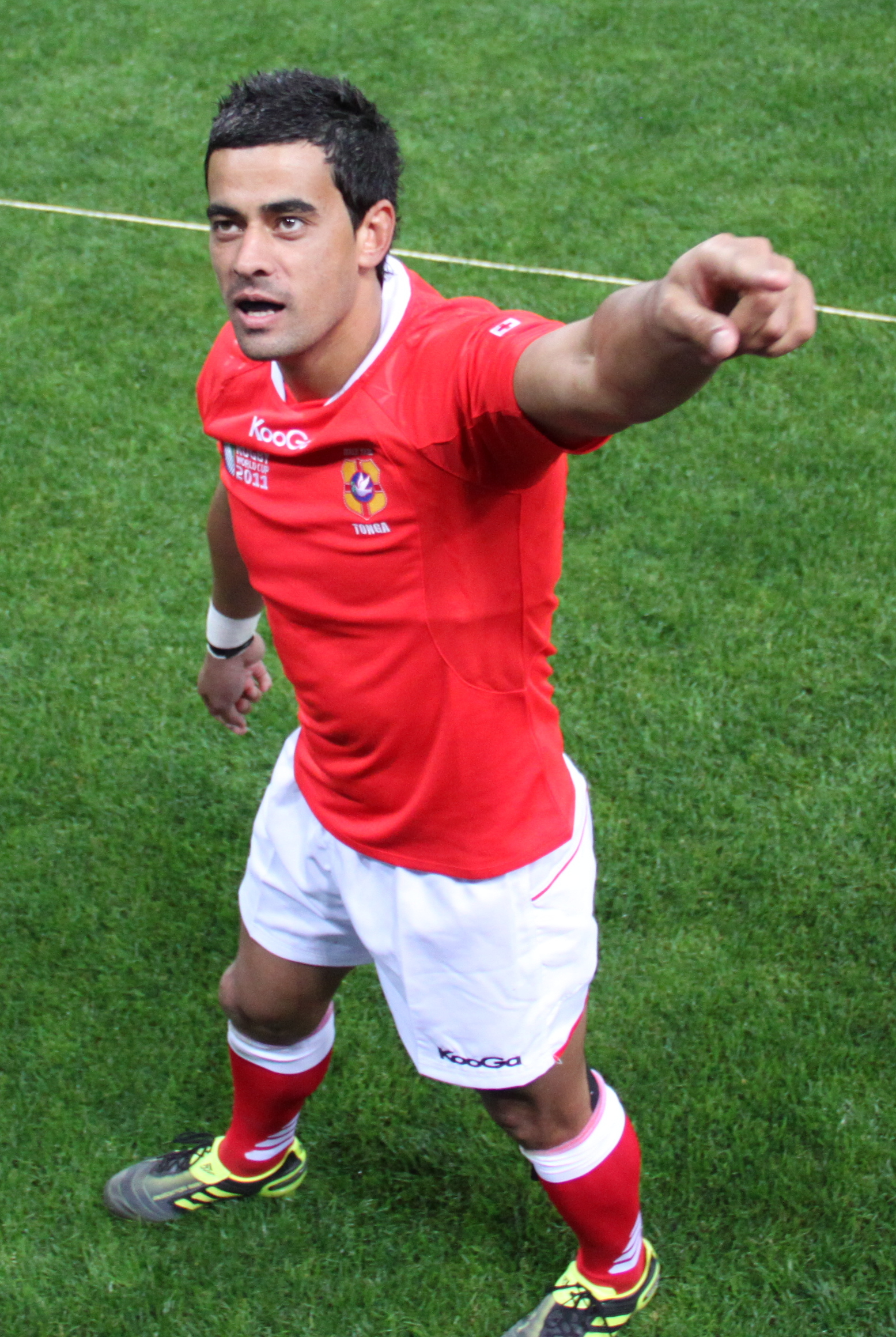 Tongan rugby union player Kurt Morath after 2011 Rugby World Cup match against France.